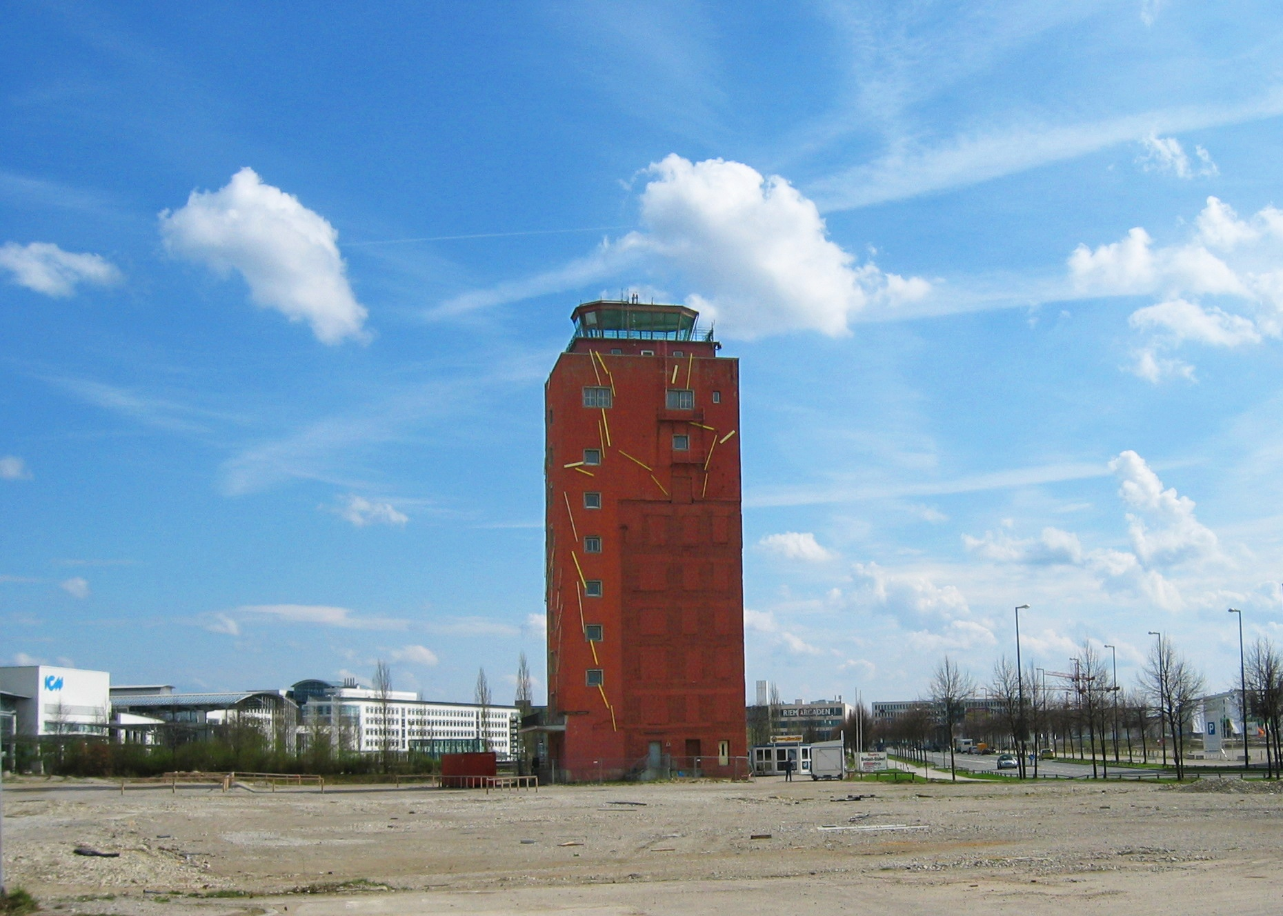 Former airport Munich Riem, tower